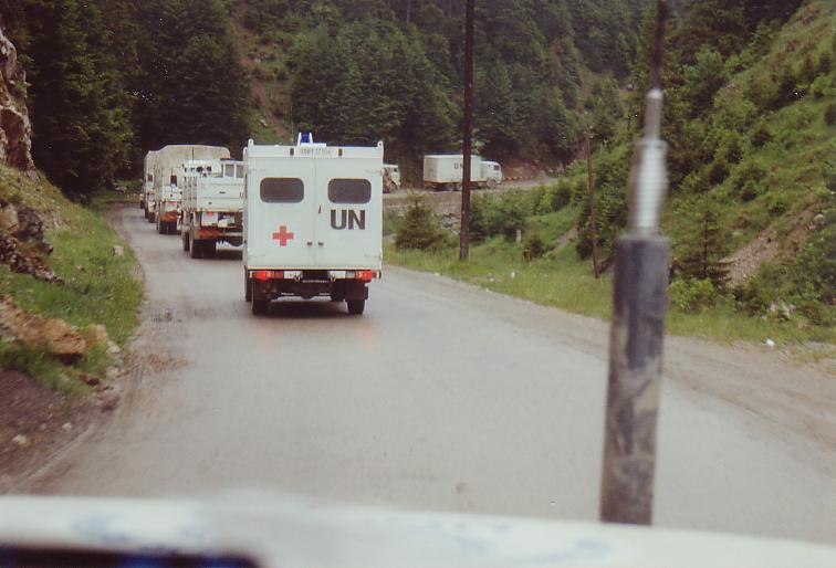 UN convoy near Tuzla during the Bosnian war 1994